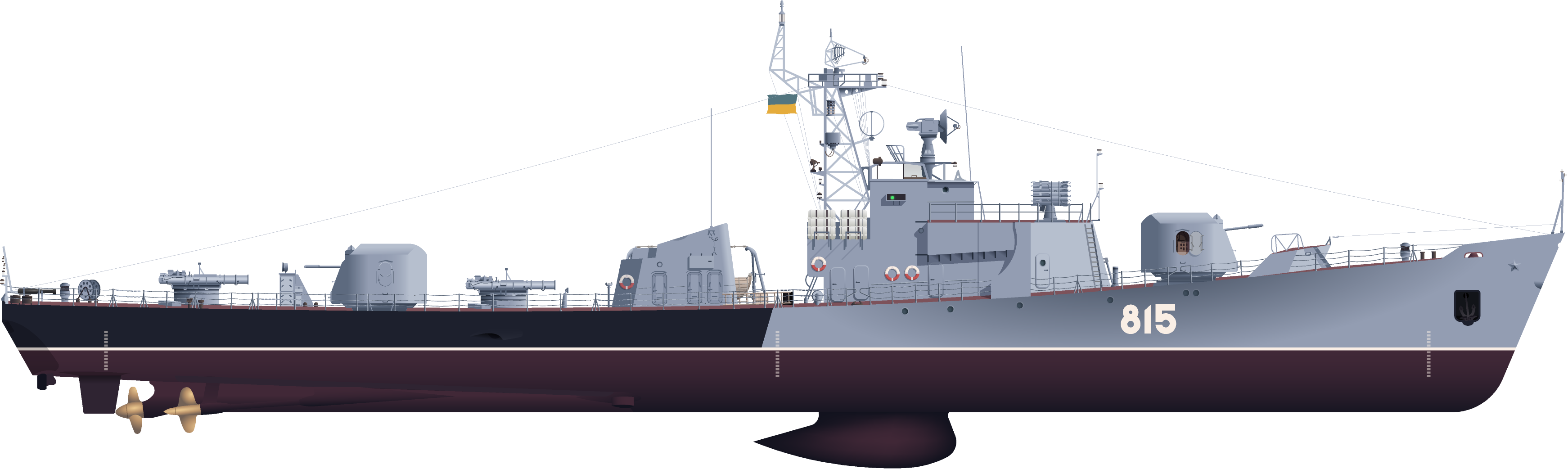 Otaman Bilyi (U132) (Ukrainian: Отаман Білий) was a Petya-class frigate of the Ukrainian Navy and formerly the Soviet frigate (guard ship) SKR-112. After the declaration of independence of Ukraine, it became the first warship that raised the Ukrainian flag and on July 21, 1992 made an unsanctioned move to Odessa. The initiator of the move was a frigate captain Zhybariov.